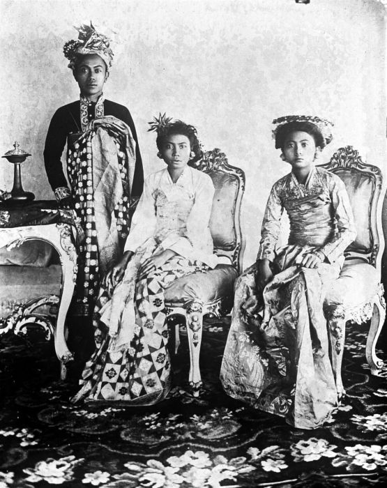 Portrait of Gusti Bagus Djilantik, raja of Karangasem Regency in Bali under Dutch colonial rule, and his two wives